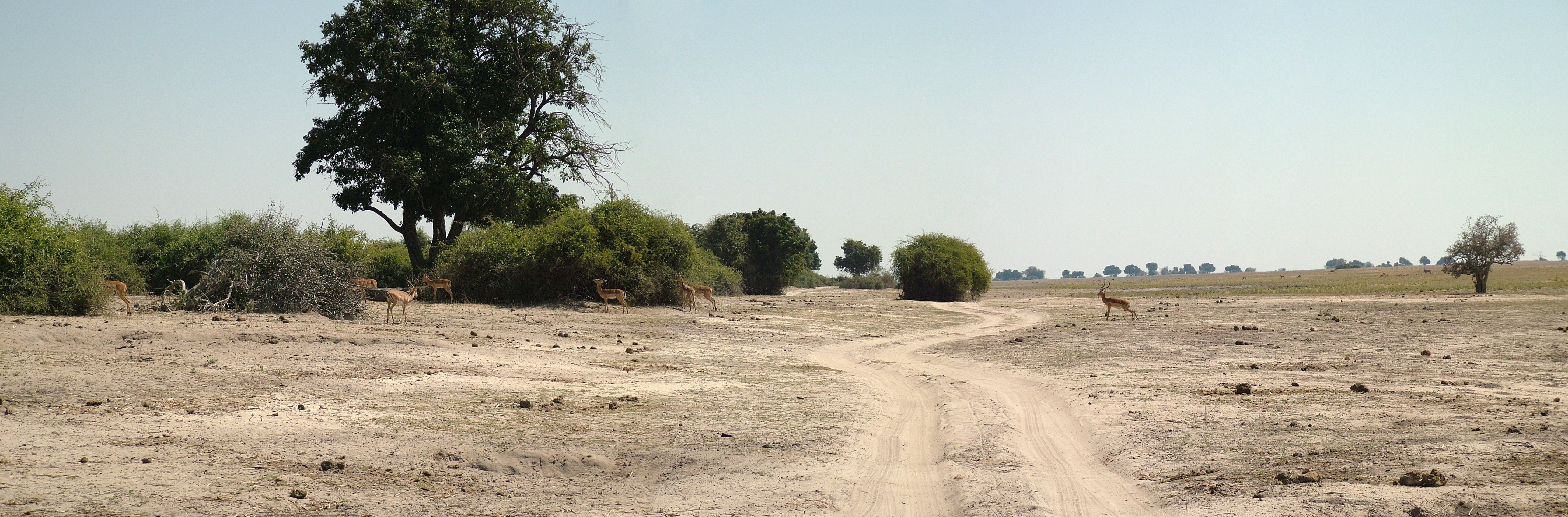 Panoramic with tracks, Chobe National Park, Botswana